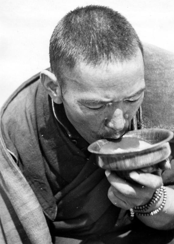 Taschilumpo [Tashilhunpo], teetrinkender Lama